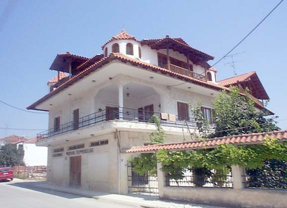 Outside view, image from the Macedonian Folklore Museum, Goumenissa, Central Macedonia, Greece